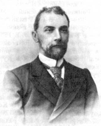 Bilibin Victor Victorovich(1869—1908), Russian writer